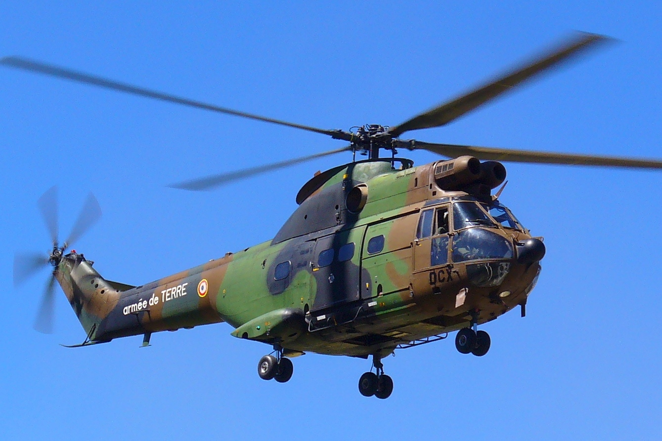 Armée de terre SA330 cropped verison of this file